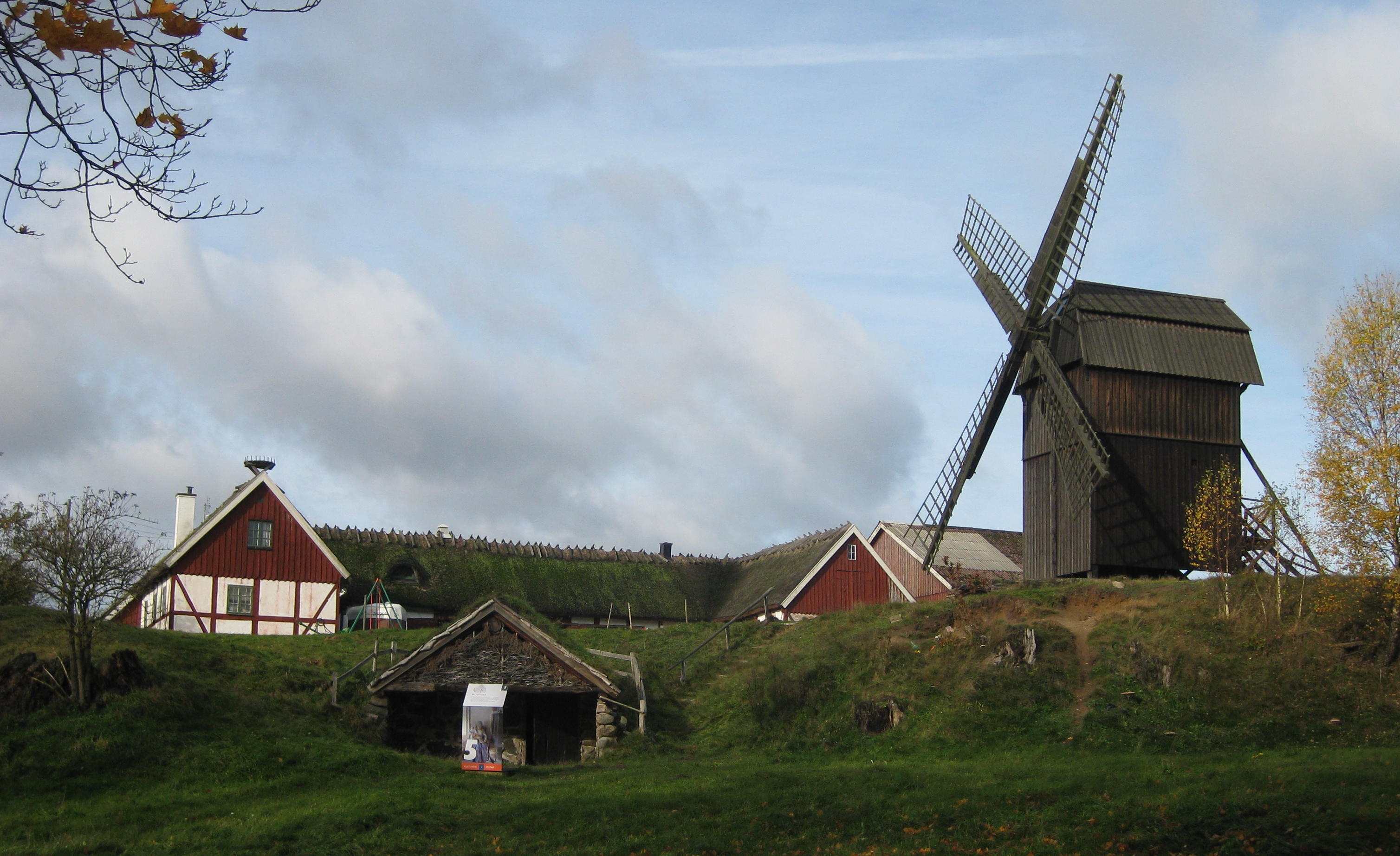 Buildings at Kulturens Östarp in Skåne, Sweden.